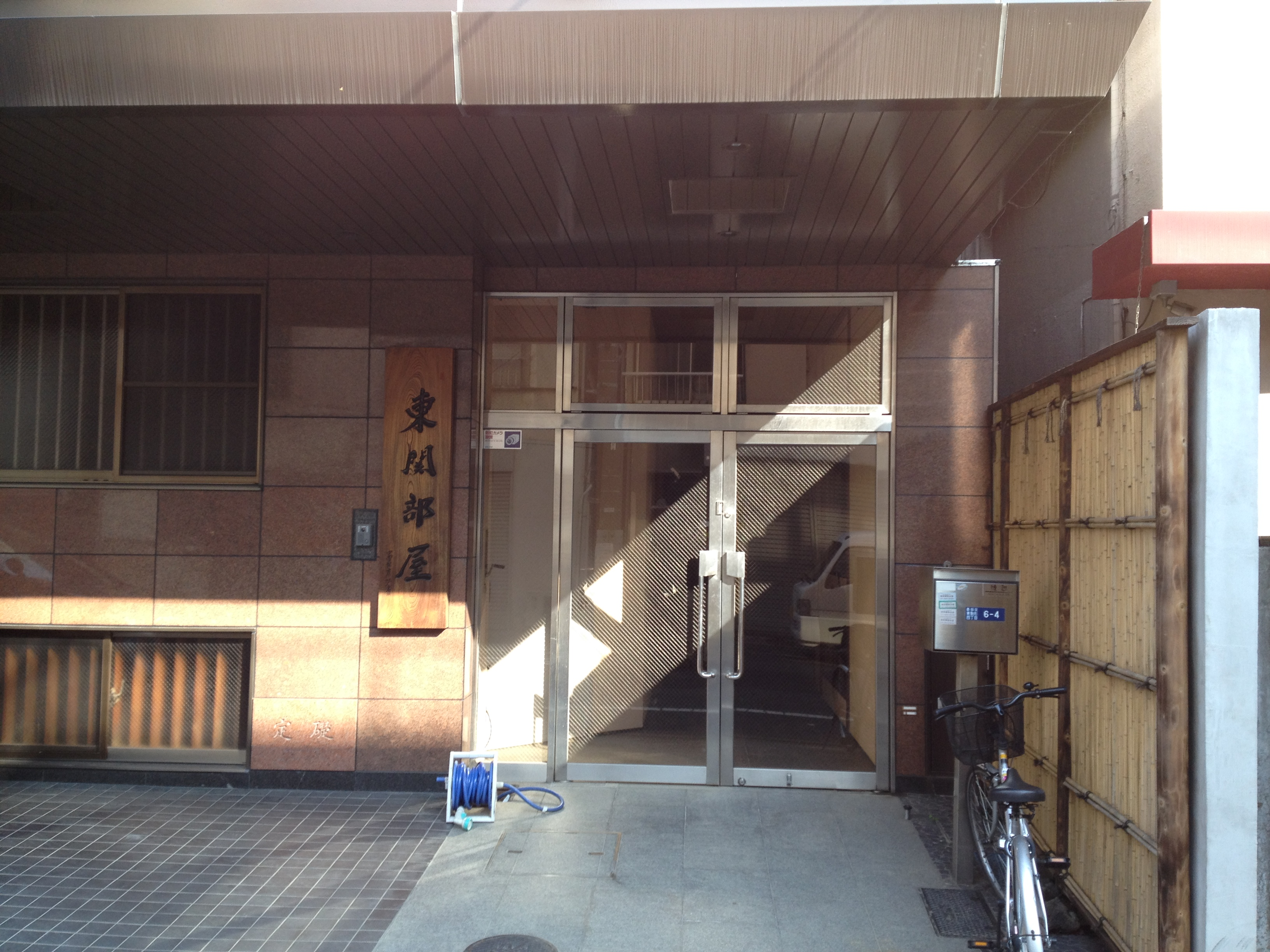 front of the sumo stable